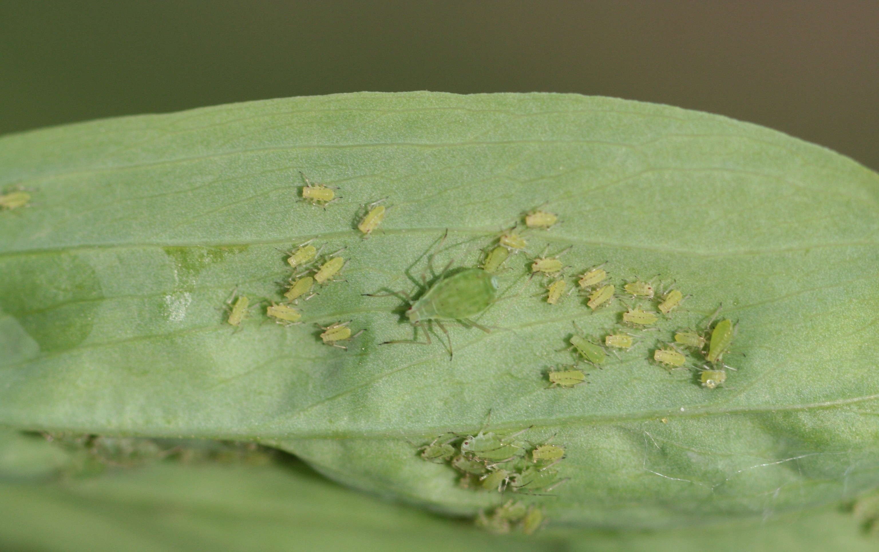 Acyrthosiphon pisum Harris Host: lettuce Lactuca sativa L. Common Name: pea aphid Photographer: Whitney Cranshaw, Colorado State University, United States Descriptor: Life Cycle Description: Small colony with adult in center and mixed immature stages of apterous aphids Image taken in: United States